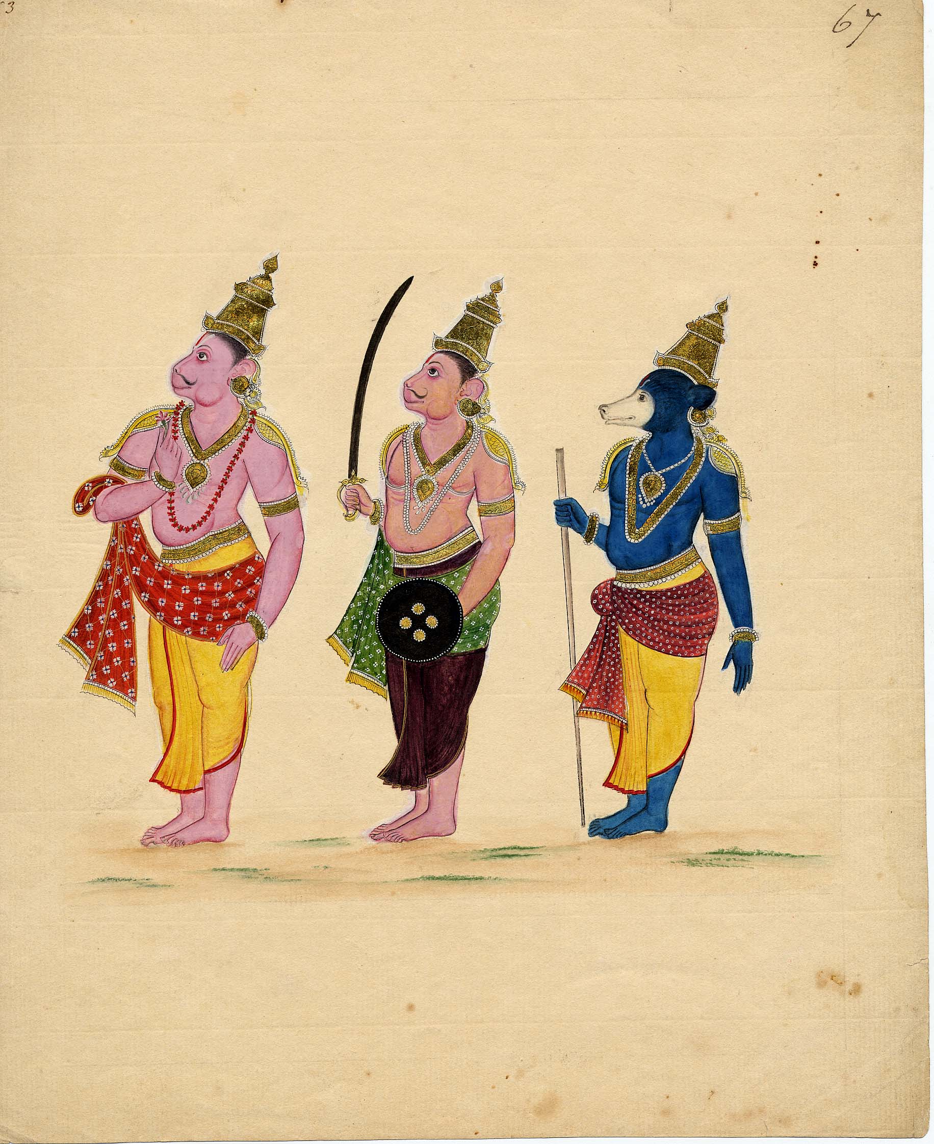 Gouache painting on paper from a portfolio of sixty-three paintings of deities and daily life. Rama’s allies, from the left, all standing in profile, Sugriva, king of the vanaras, followed by Angada and Jambavan, king of the bears. Sugriva carries a flower in his right hand and a garland of red flowers hangs over his chest. All three wear dhotis with the angavastra (shawl) elegantly draped around their hips. Angada carries a sword and shield and Jambavan has a long stick.